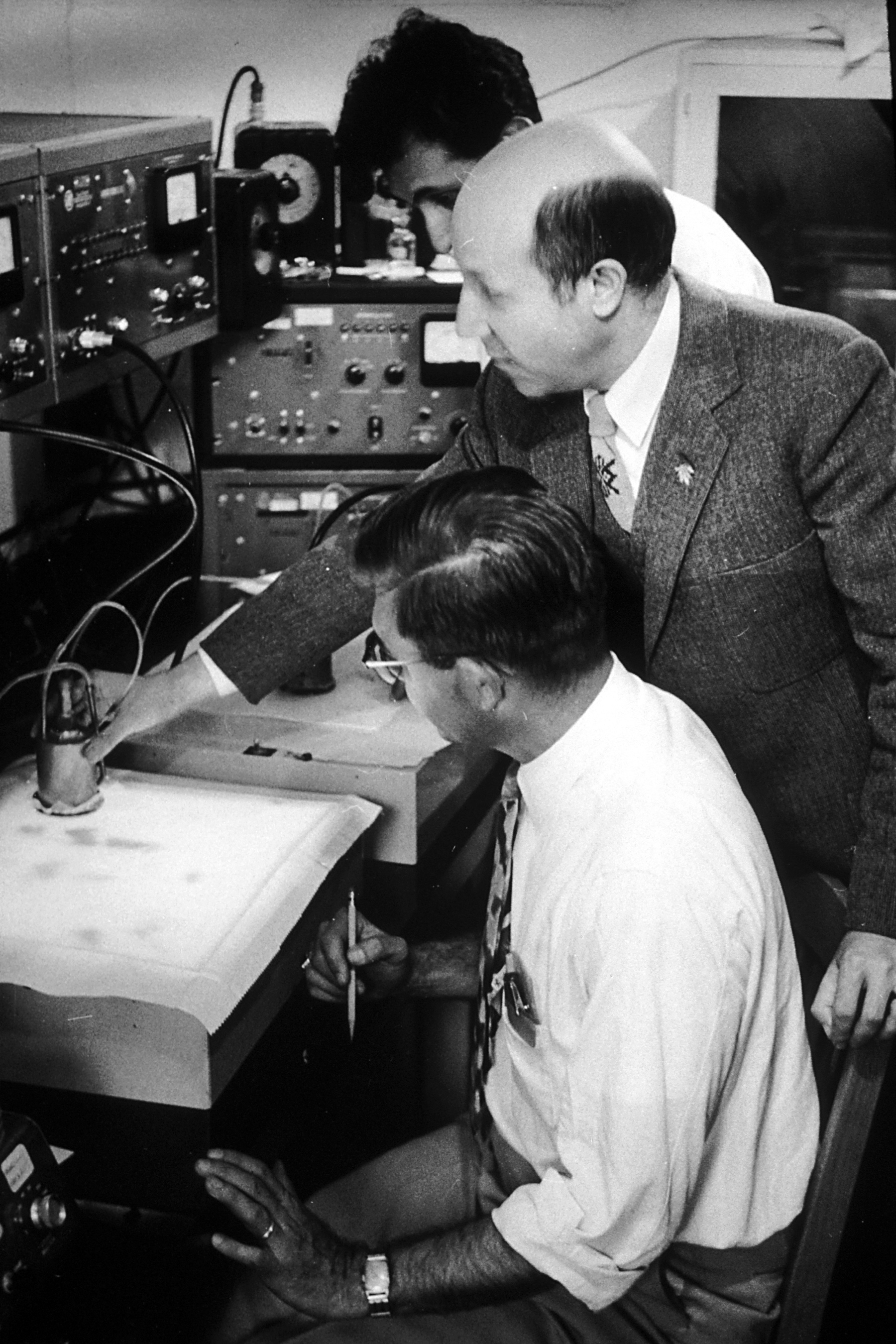 Title Calvin, Melvin Description Mr. Calvin surrounded by two other men, holding scientific apparatus. An American chemist most famed for discovering the Calvin cycle along with Andrew Benson and James Bassham, for which he was awarded the 1961 Nobel Prize in Chemistry. Topics/Categories Historical, People Type B&W, Photo Source G. Terry Sharrer, Ph.d. National Museum Of American History.